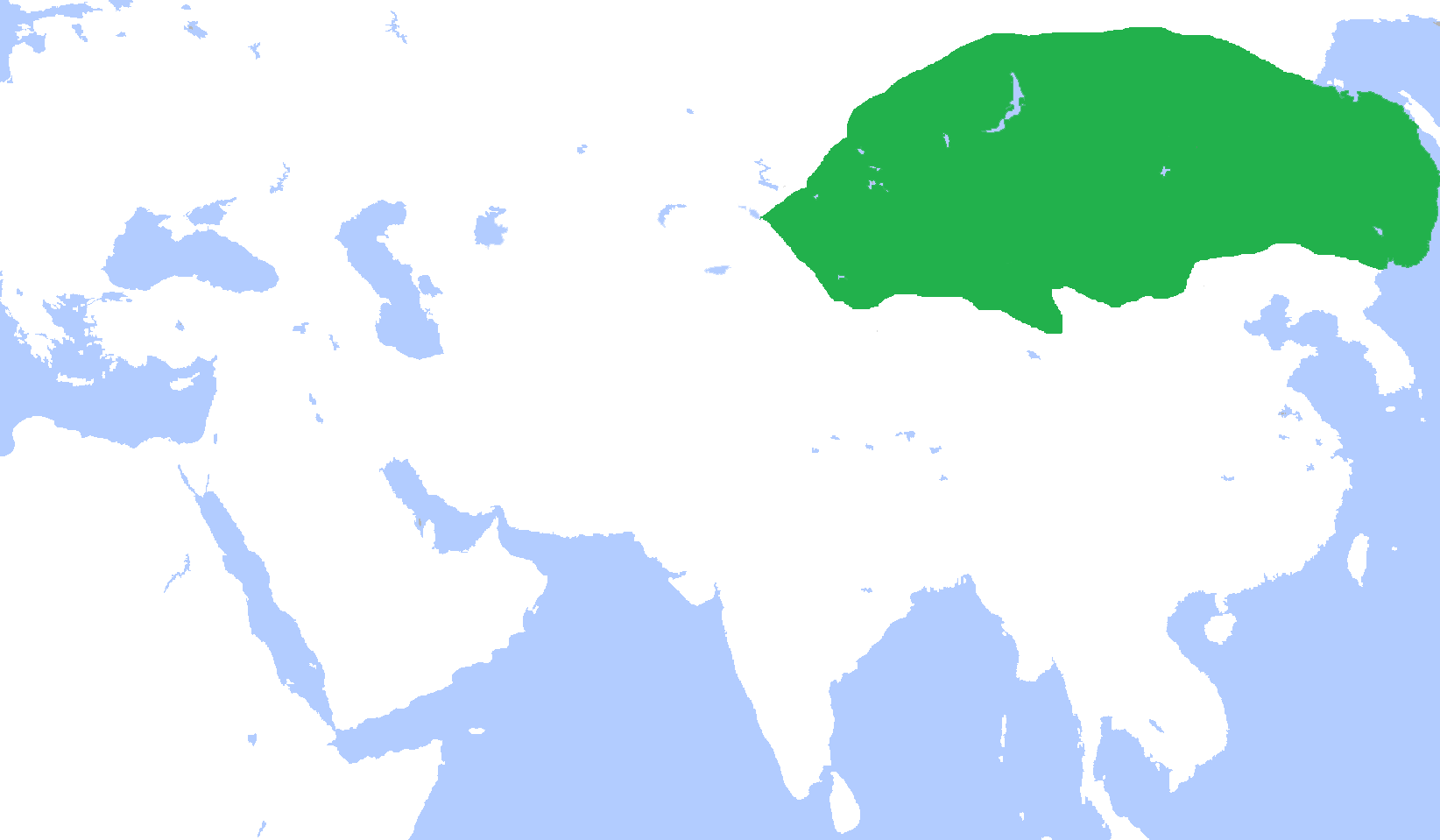 Locator map of the Eastern Gökturks, c. 601-627.